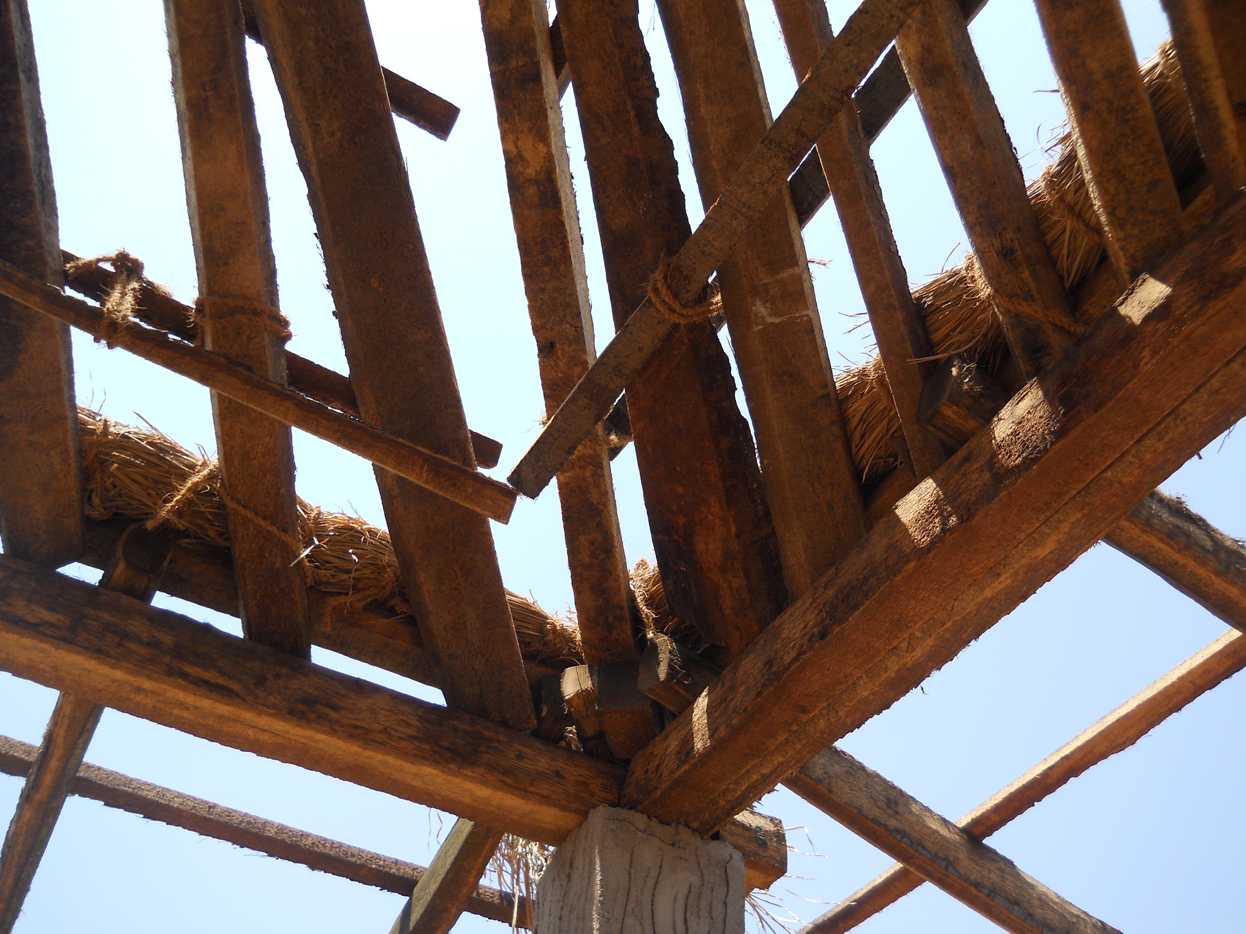 Thatcher